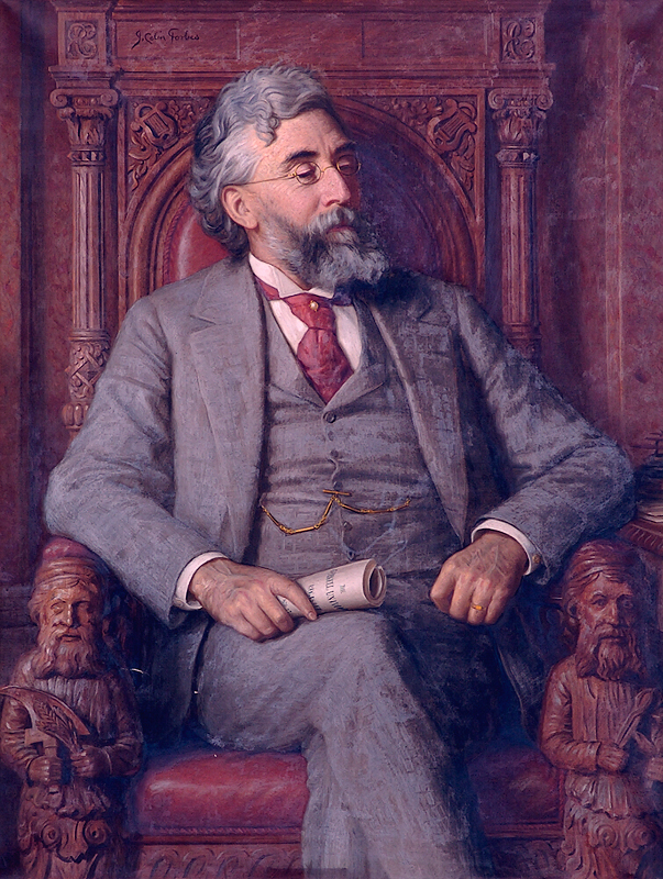 Portrait of Charles Kendall Adams, the second president of Cornell, currently located in the Dean's room of Uris Library at Cornell University.